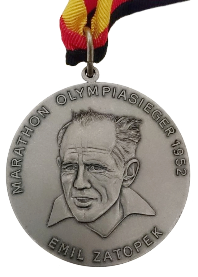 Medal of the Berlin marathon 1988 with a portrait of Emil Zatopek